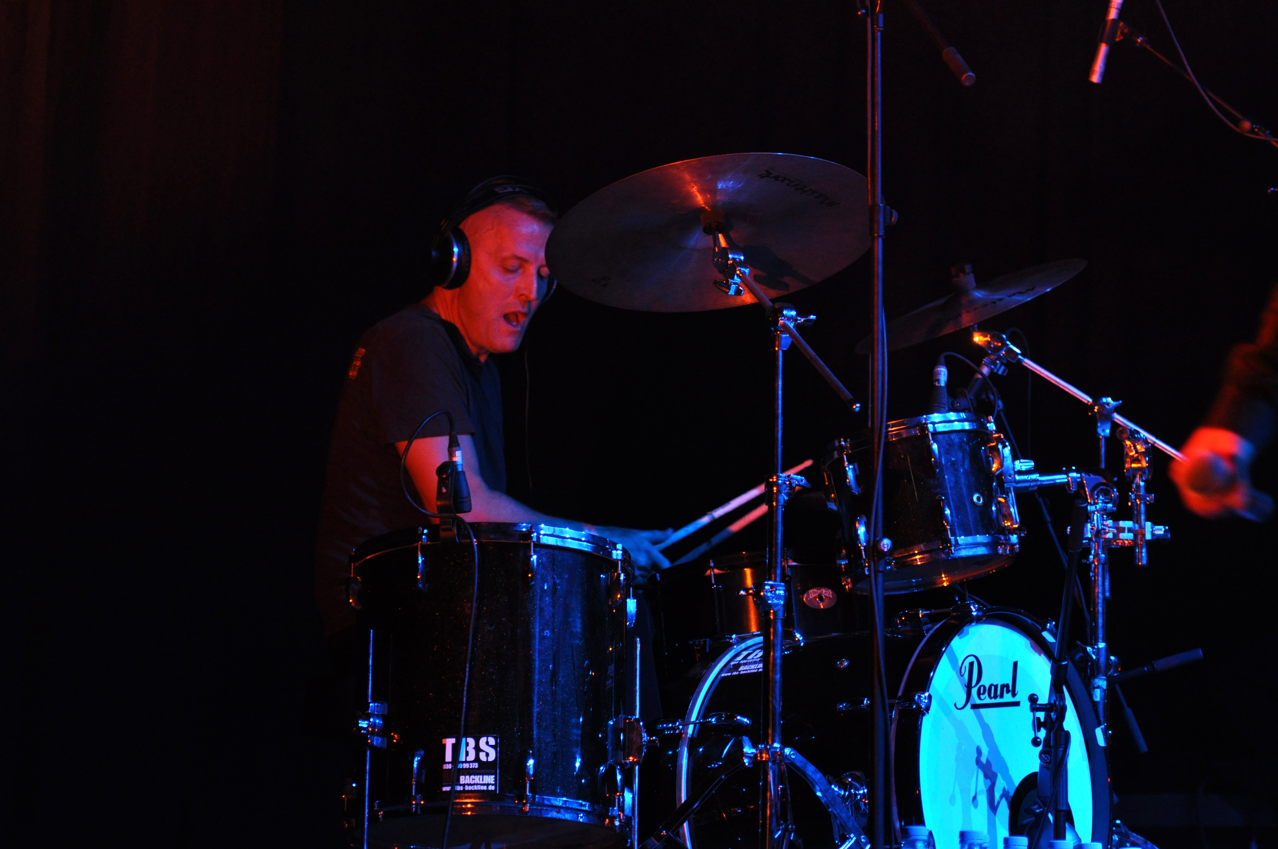 Robert Görl from the German Band Deutsch Amerikanische Freundschaft at e-tropolis 2013, Berlin